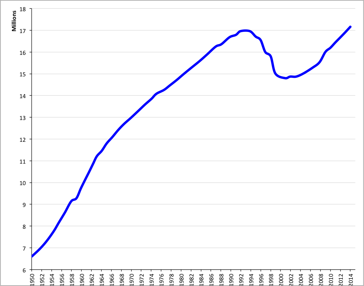 Kazakhstan's population (1950-2009). Data sources: Demoscope, Agency of Statistics of the Republic of Kazakhstan